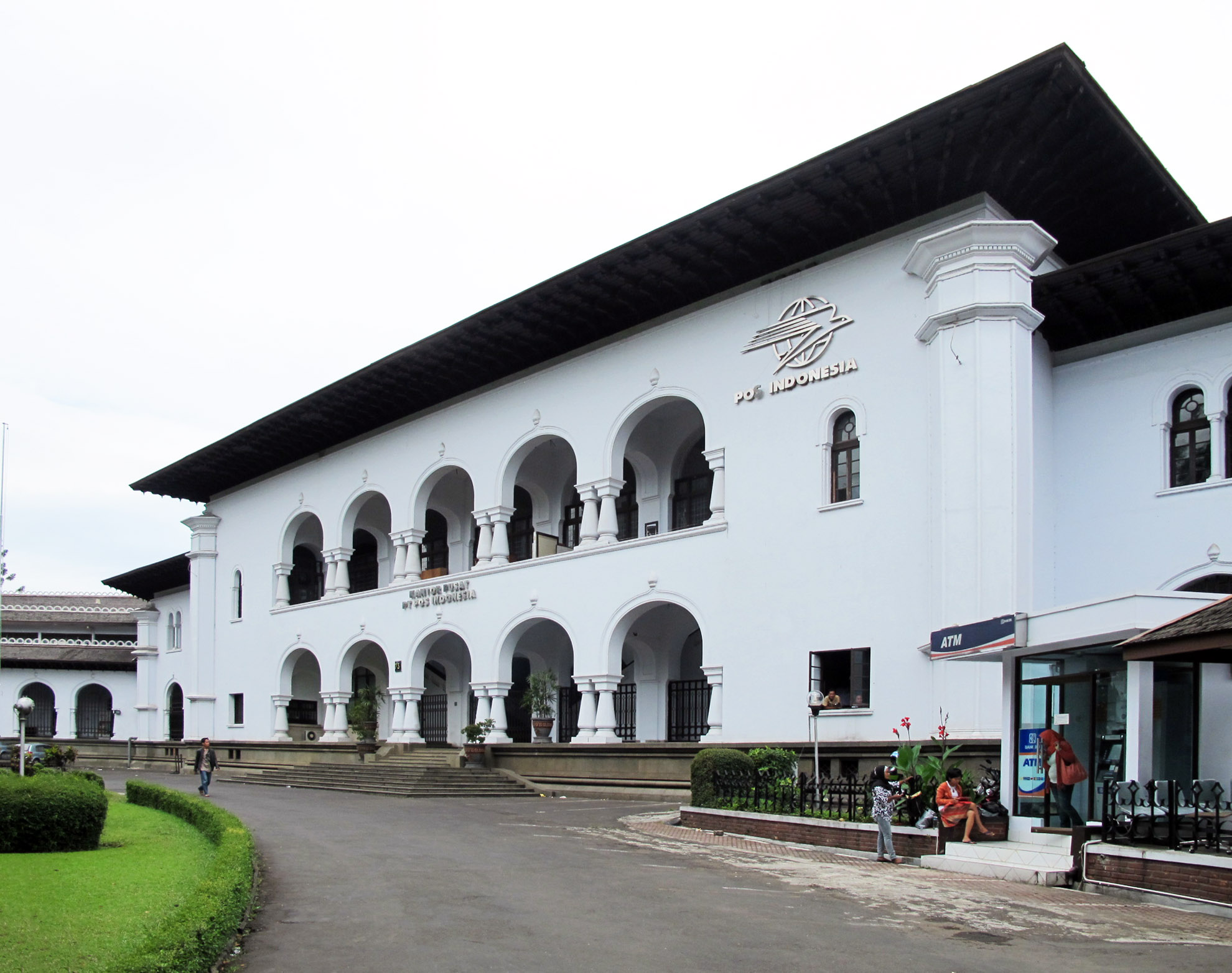 Headquarter of Indonesian Post